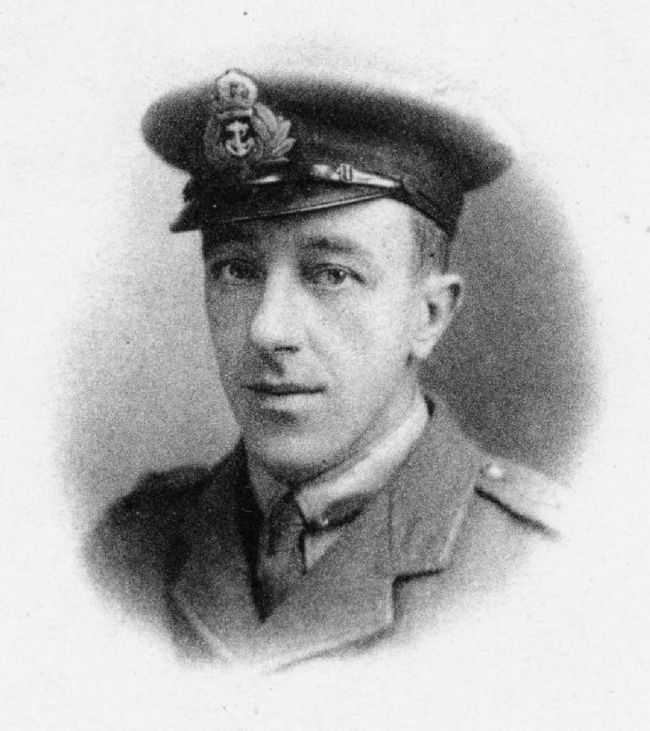 Hood Battalion, Royal Naval Division Lieutenant the Honourable Maurice Henry Nelson Hood served with the Hood Battalion, Royal Naval Division. He had joined the Royal Naval Volunteer Reserve. He was last seen alive on 4 June 1915 during the Gallipoli Campaign, aged 24. Along with 20 other men, he had come under heavy fire in a trench subsequently reoccupied by Turkish soldiers. He is commemorated at the Helles Memorial. Faces of the First World War Find out more about this First World War Centenary project at This image is from IWM Collections.